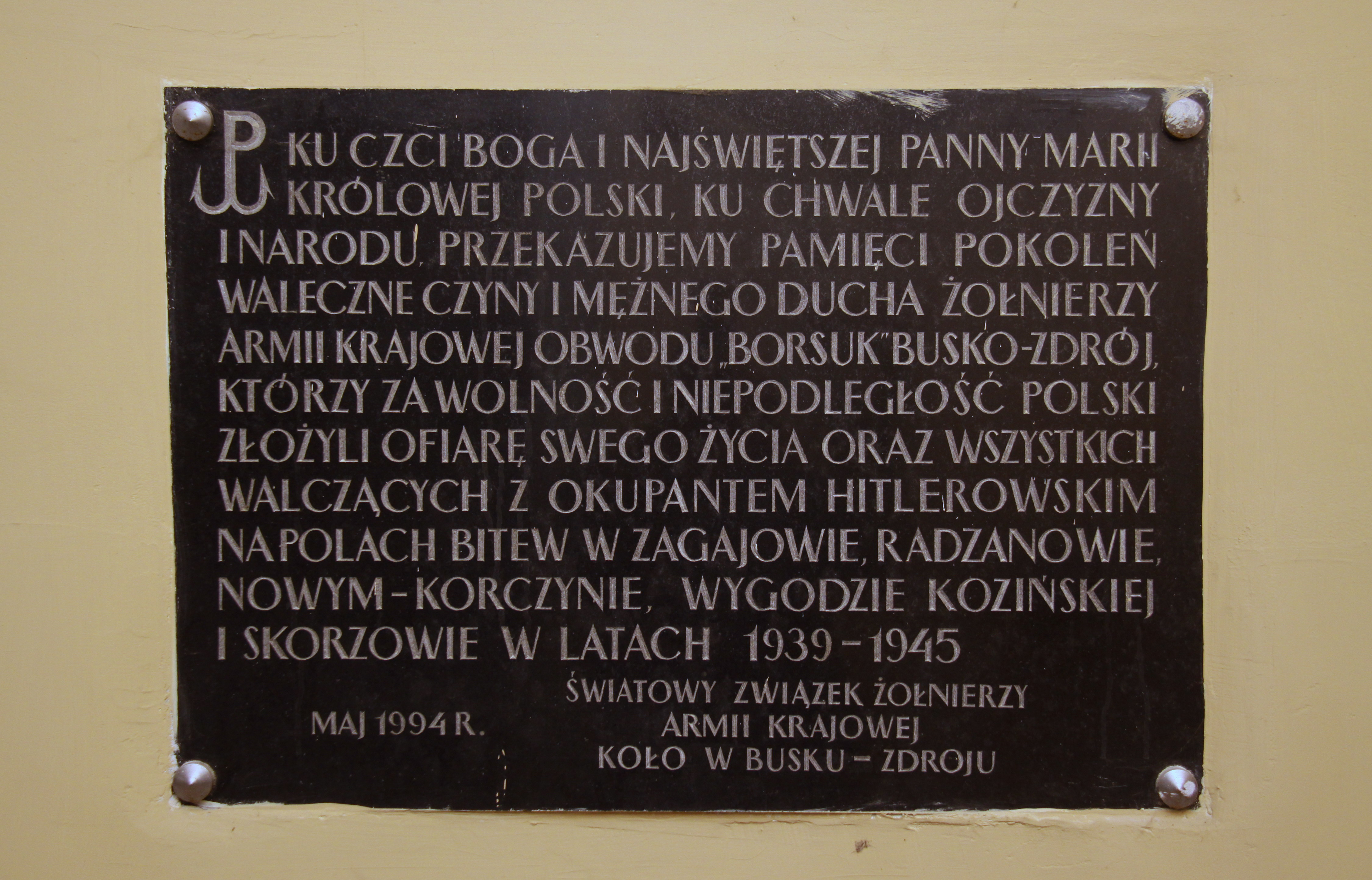 Busko-Zdrój, the Church of the Immaculate Conception of the Blessed Virgin Mary, the porch - a plaque commemorating the soldiers of the AK District "Badger" Busko-Zdrój.